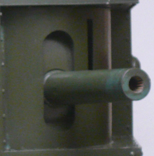 Closeup of the QF 6 pounder 6 cwt gun in the leftside sponson of Mk V tank "Devil", at the Imperial War Museum London. This appears to be the Mk I gun with single-tube barrel. See Image:MkVTankDevilLeftFrontIWMApril2008.jpg for the full image.